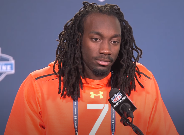 In 2015